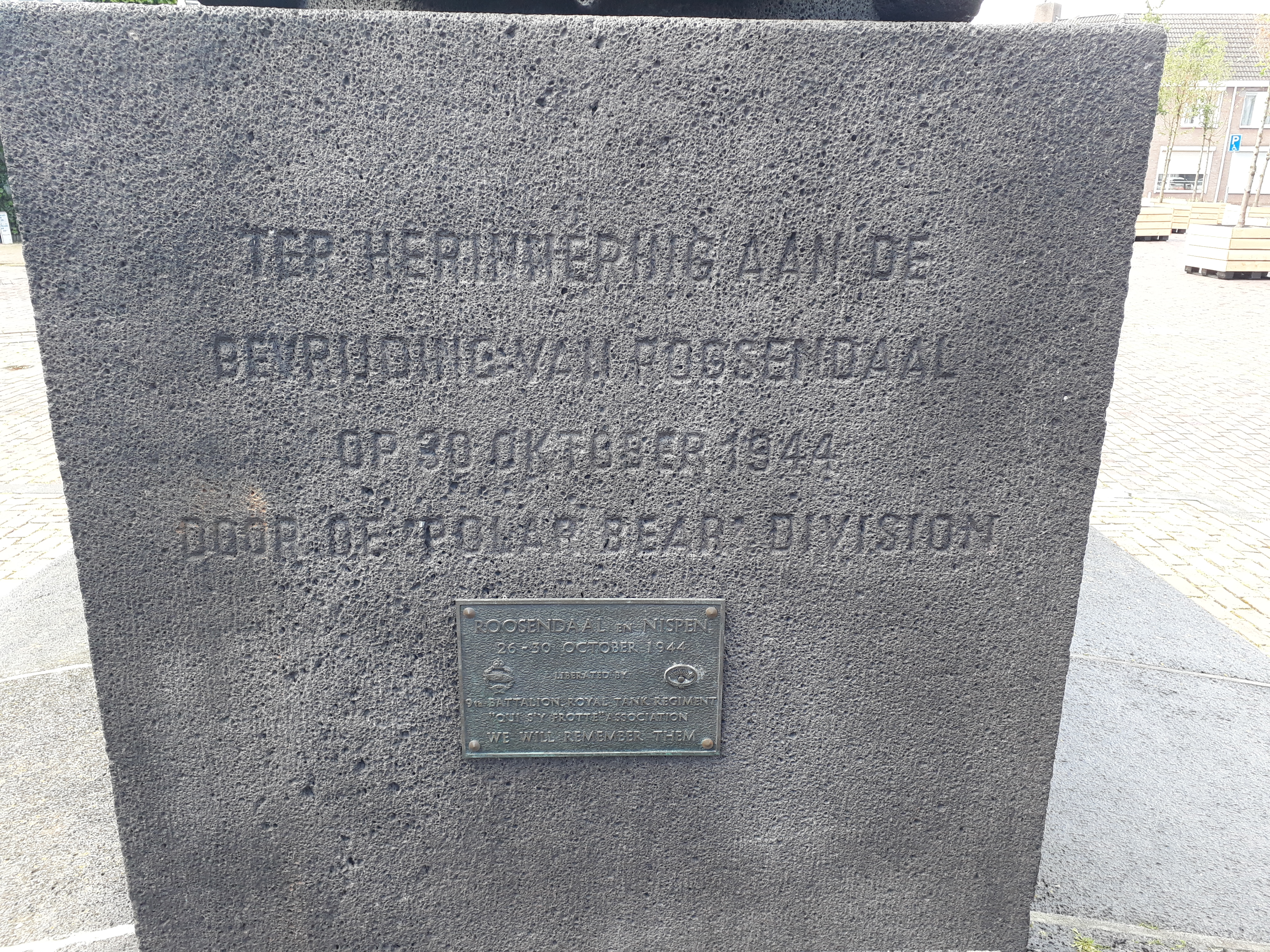 Dit is het voetstuk van de Polar Bear. Je ziet de inscriptie met daaronder het plaquette.